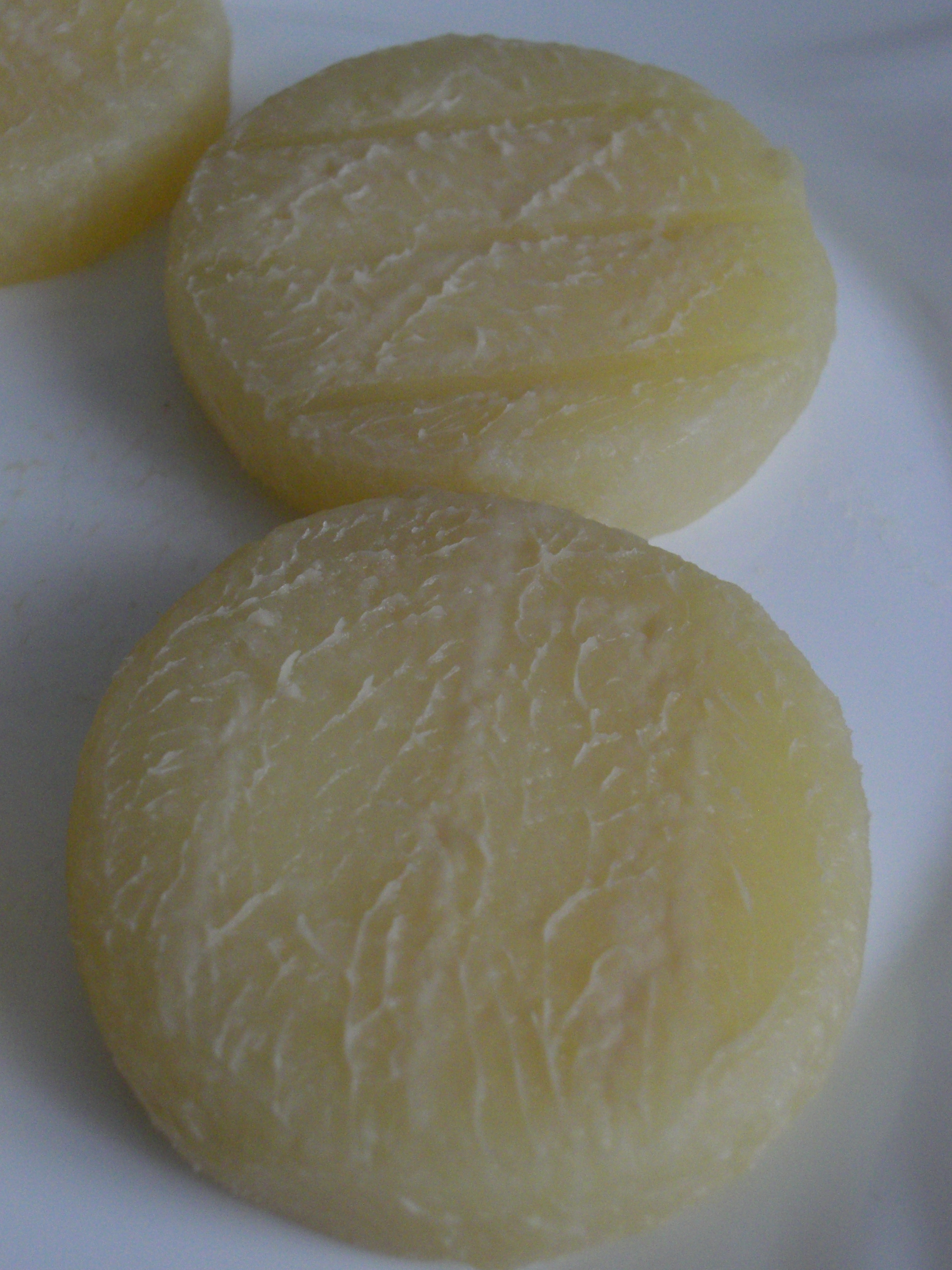 Olomoucké syrečky